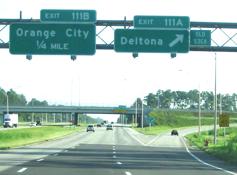 Interstate 4 east at exits 111A-B. Taken July 27, 2003 by User:SPUI.